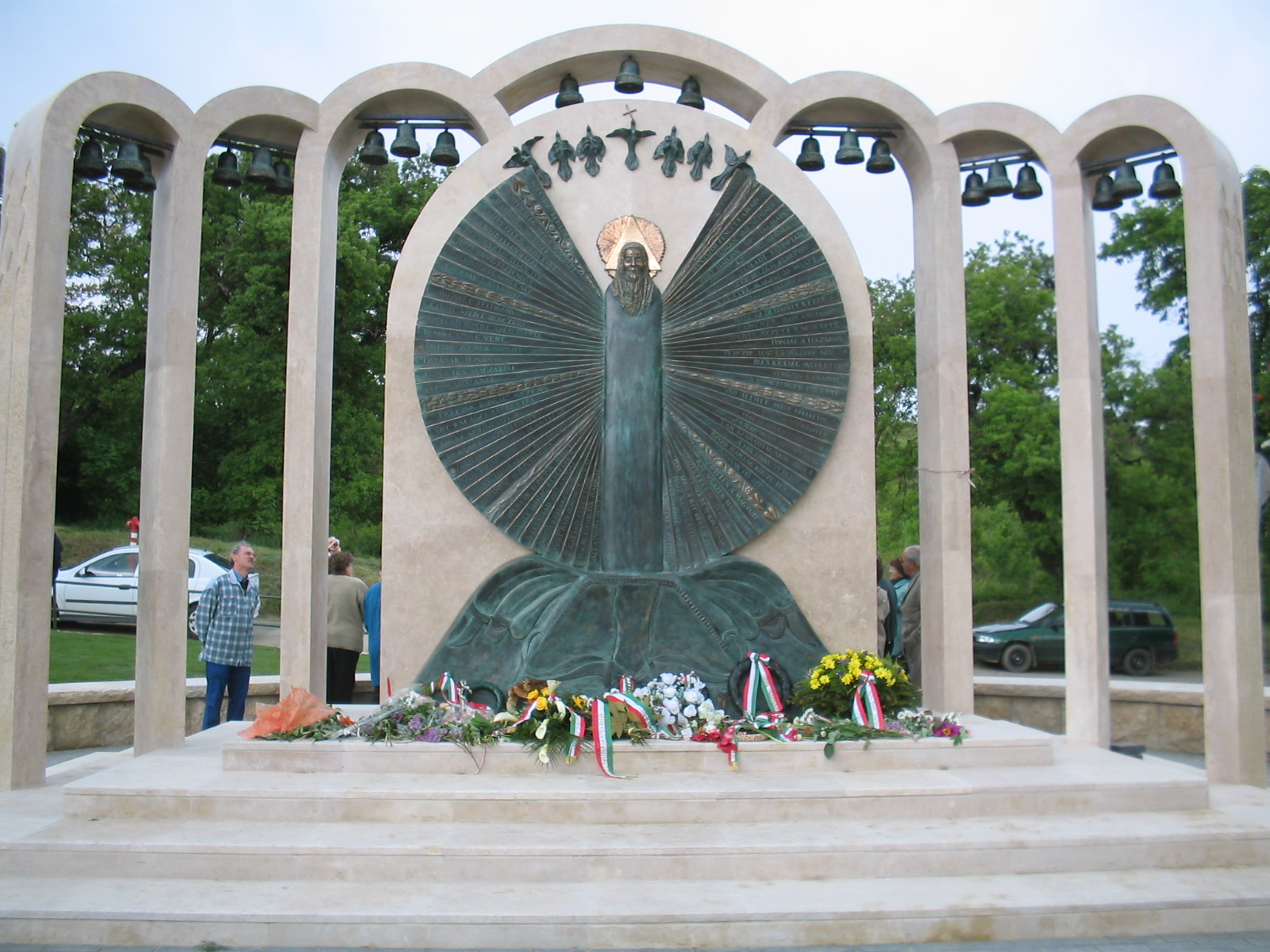 Sculpture of Himnusz, the national anthem of Hungary, front side (Budakeszi, Hungary) Sculptor:Mária V. Majzik (2006)